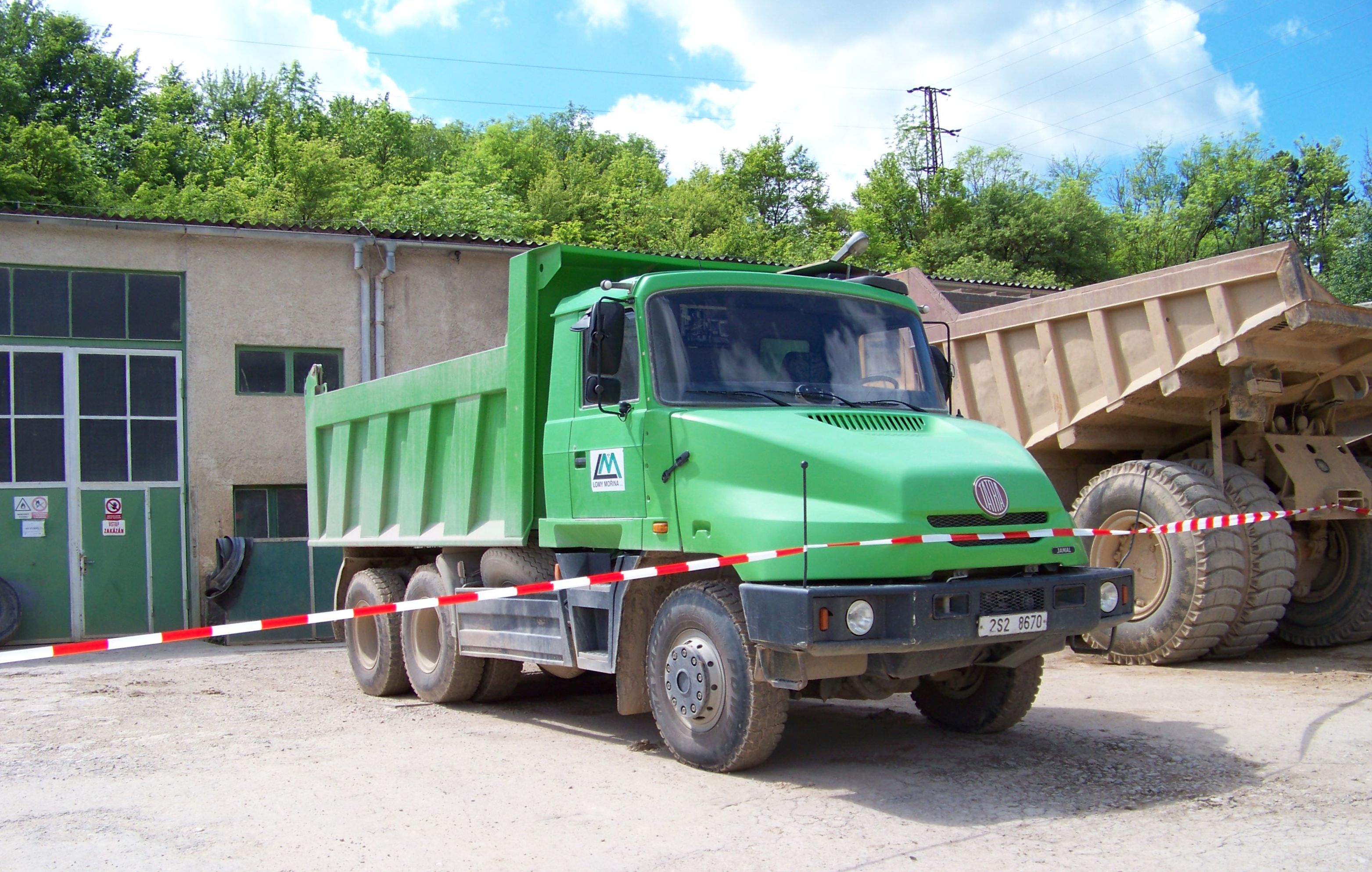 Mořina, Beroun District, Central Bohemian Region, the Czech Republic. The vehicle in the foreground is Tatra 163 Jamal